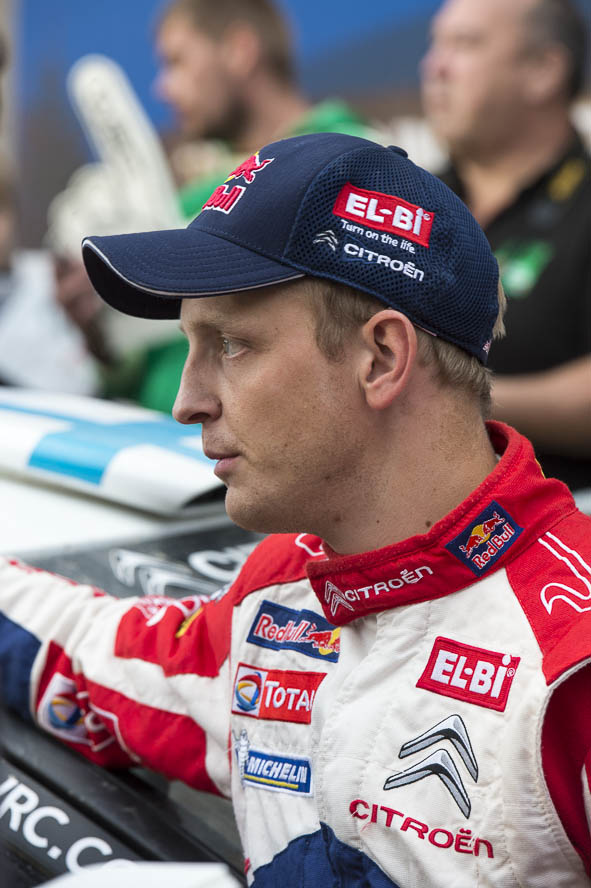 Wales Rally Great Britain 2012 Mikko Hirvonen,Motorsport,Rally,Rallye,Servicepark,WRC,Wales Rally GB